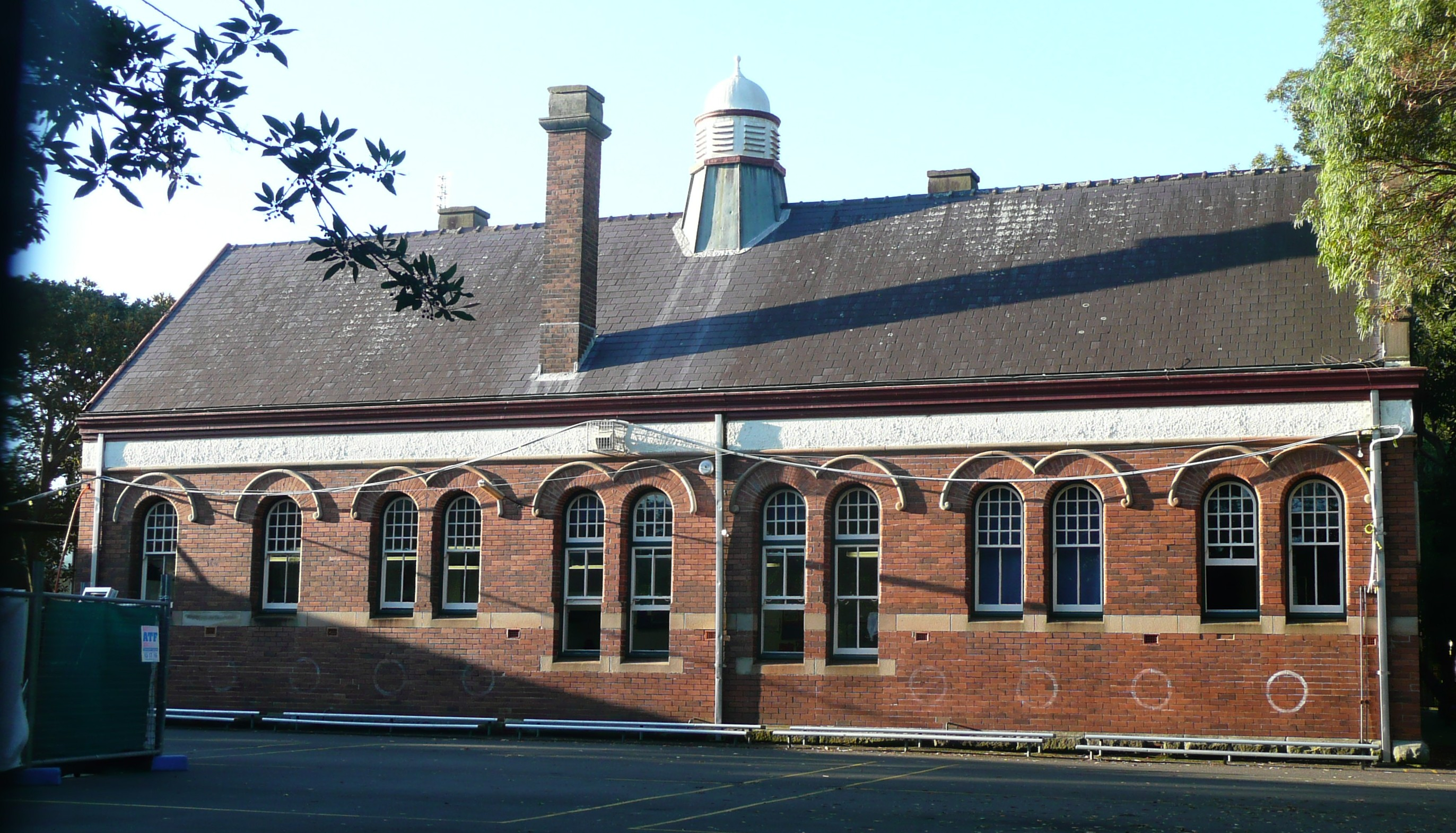 kensington school, sydney